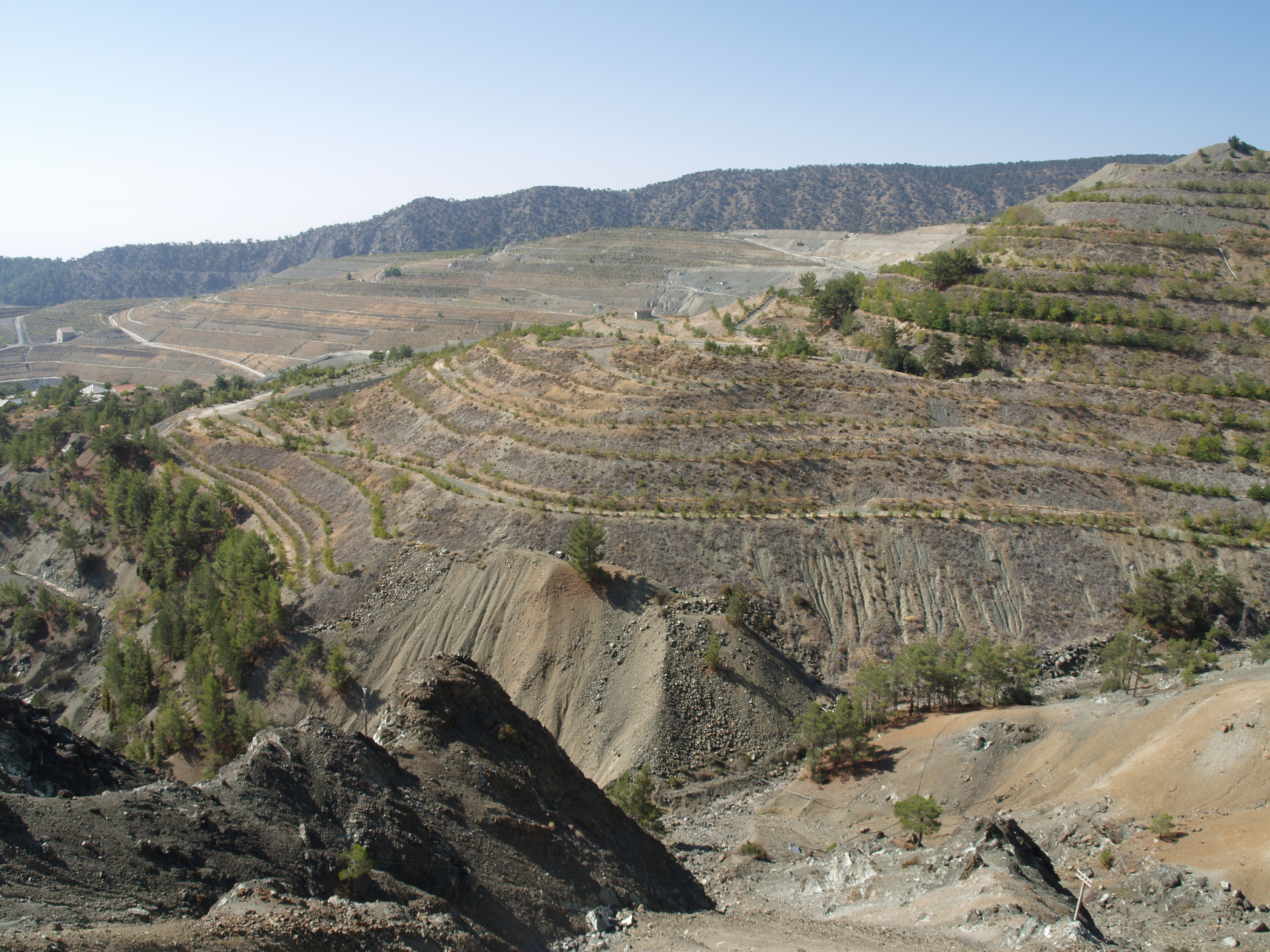 The replanting of the abandoned Pano Amiantos asbestos Mine